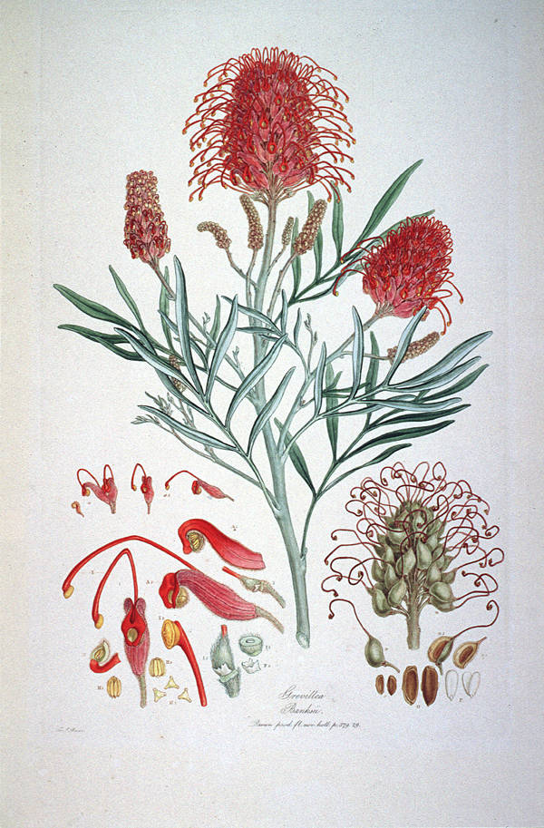 This is a scan of Plate 9 from Ferdinand Bauer's Illustrationes Florae Novae Hollandiae. The plant featured is Grevillea banksii, then written Grevillea Banksii.